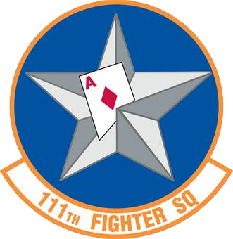 Emblem of the 111th Reconnaissance Squadron ( Texas Air National Guard Image; The famous “Ace-In-The-Hole” emblem was approved by the War Department on 6 June 1933. The emblem, which was the squadron’s third attempt to obtain a unit insignia, was designed by Lt Earl Showalter, the squadron’s Chief Caretaker. The Ace-In-The-Hole emblem strongly reflects the unit’s Texas heritage and has been grandfathered, exempting it from subsequent regulations guiding unit emblems.